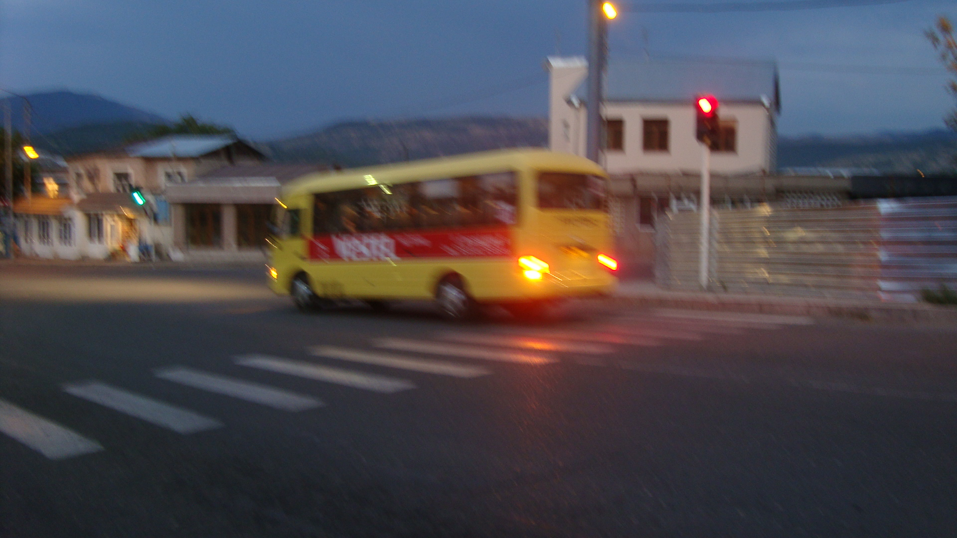 City bus. Stepanakert, the capital of the Republic of Mountainous Karabakh (Artsakh).